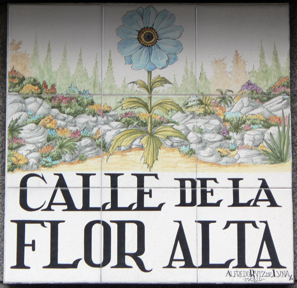 Sign of Calle de la Flor Alta (street, Centro district) in Madrid (Spain).